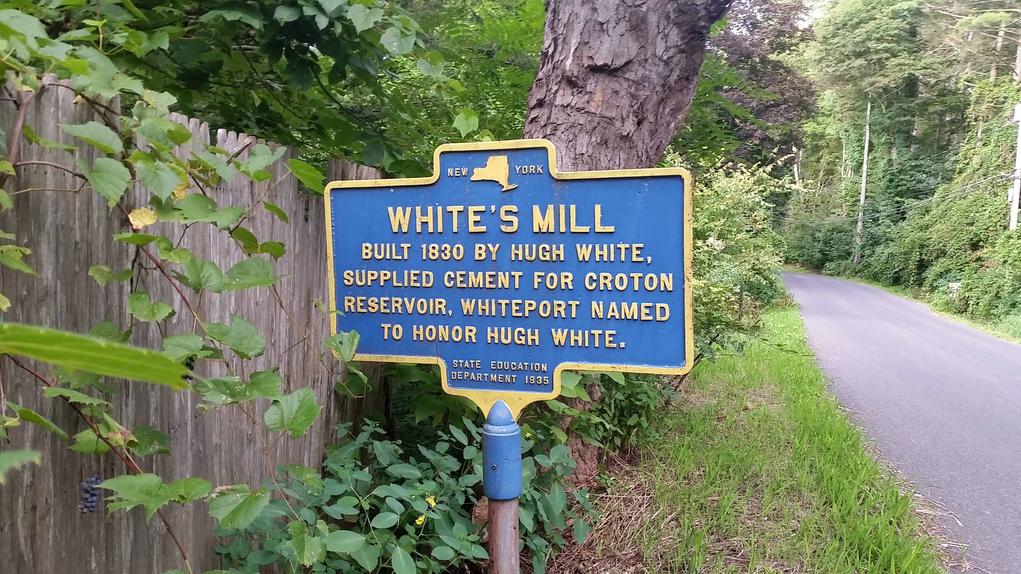 New York State historical marker for White's Mill